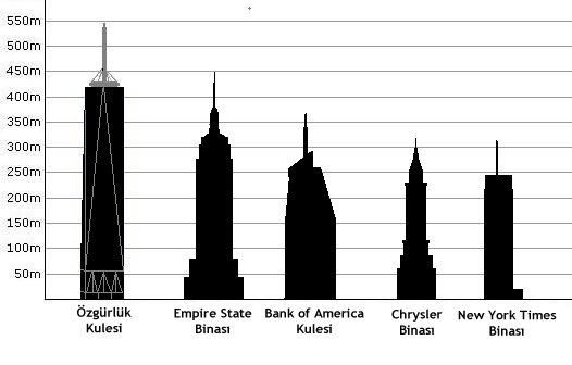 Comparison of skyscrapers in New York